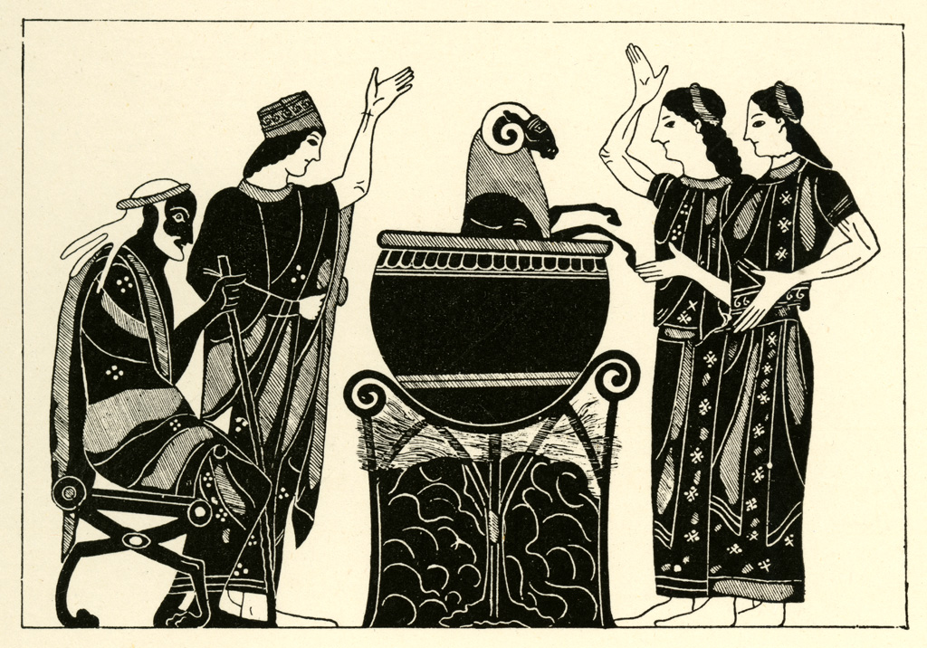 Dugald Sutherland MacColl (British draftsman, 1859-1948) 1894 6.7 cm (height) x 10 cm (width) Drawing after an Attic black-figure amphora, provenance Etruria, now in the collection of the British Museum, London [1837.0609.62 (Vase B 221)]. Published in Harrison, Jane Ellen and D.S. MacColl. Greek vase paintings; a selection of examples, with preface, introduction and descriptions. London: T.F. Unwin, 1894.